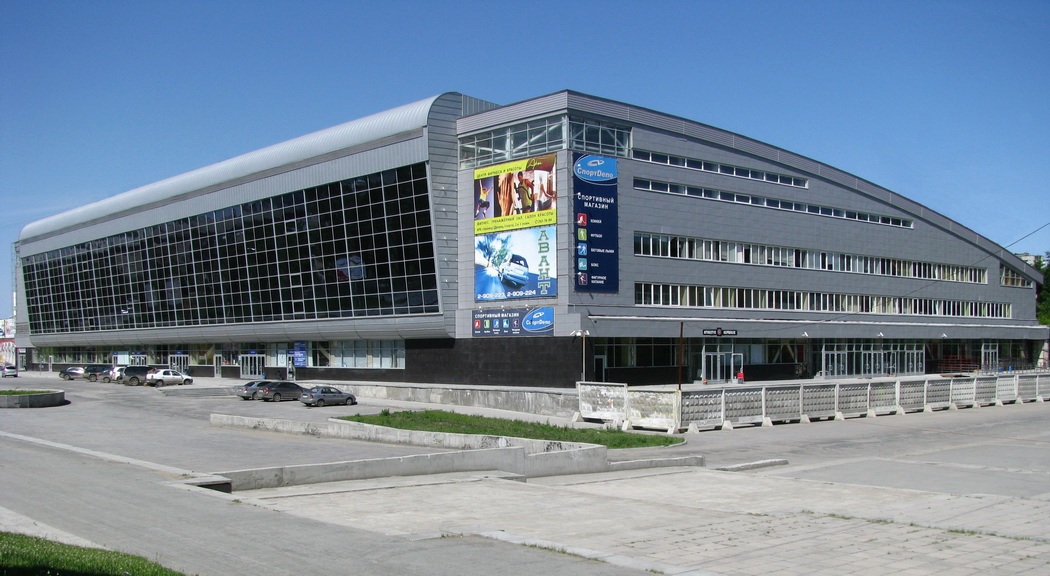 The Uralets cultural and entertainment complex (the Ice Palace) in Yekaterinburg